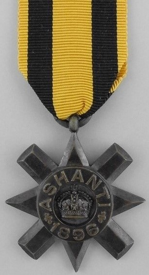 Front view of campaign medal awarded to British led forces who took part in the 1896 expedition against Prempeh, king of Ashanti, now part of Ghana.